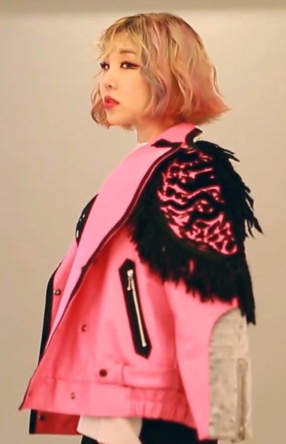 KittiB in a photo shoot for Ten Asia Magazine on 14 August 2016